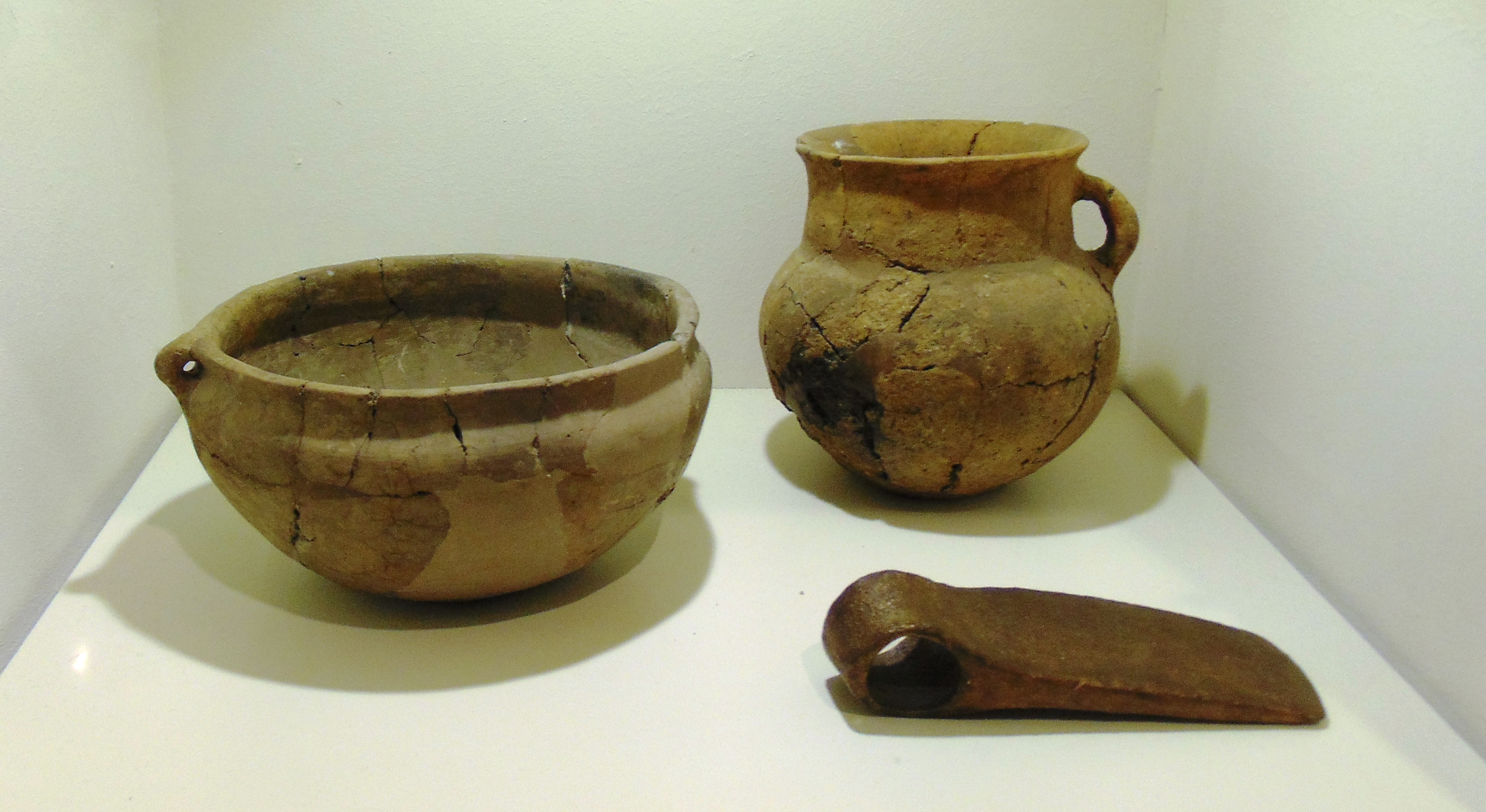 1, 2. Vessel. Clay. Chaliantkhevi barrow No. 1. Kura-Araxes Culture, second half of the 4th - first half of the 3rd milennium BC. 3. Axe. Bronze. Areshi. Early Bronze Age, 3rd millenium BC. Sighnaghi Museum, Georgia.